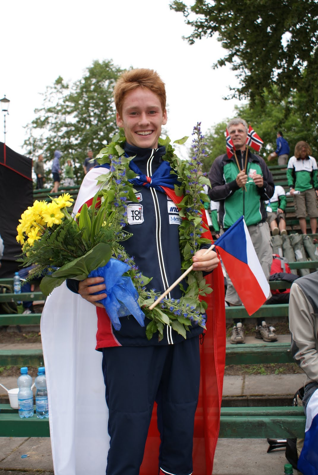 Pavel Kubát at JWOC 2011 after Long distance.